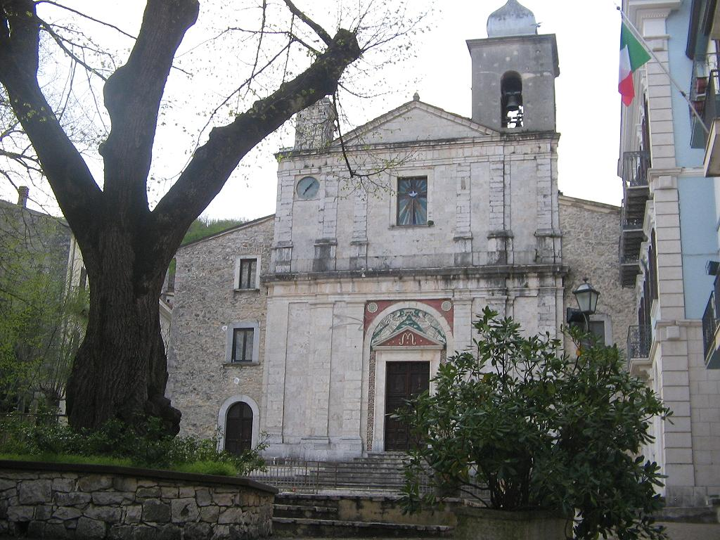 View of the central church of the Immaculate Conception, in Filignano (Molise, Italy). In the right corner, the town hall.